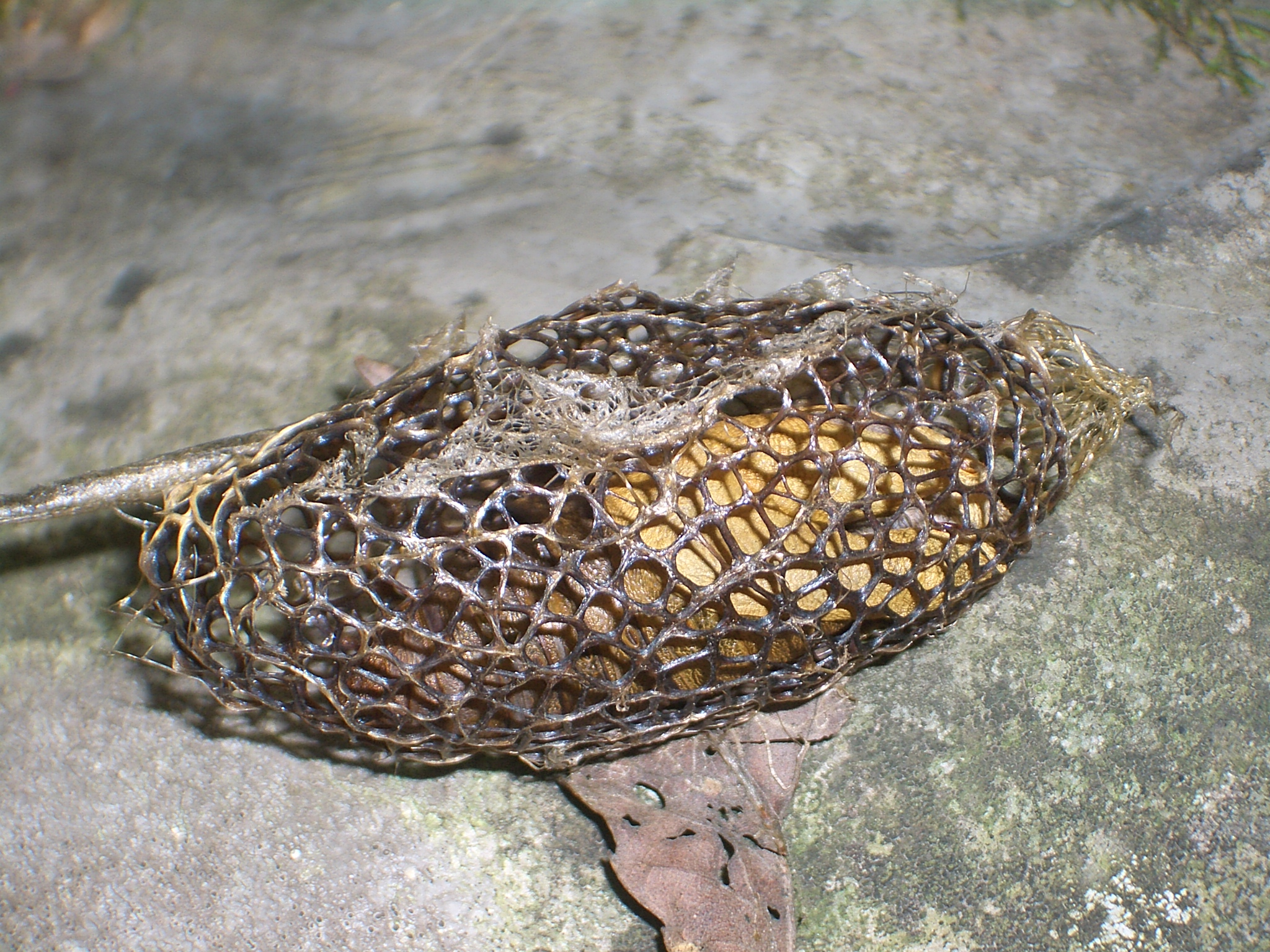 An interesting insect's cocoon (?) seen In the forest in the hills just west of Muyu Town, Shennongjia